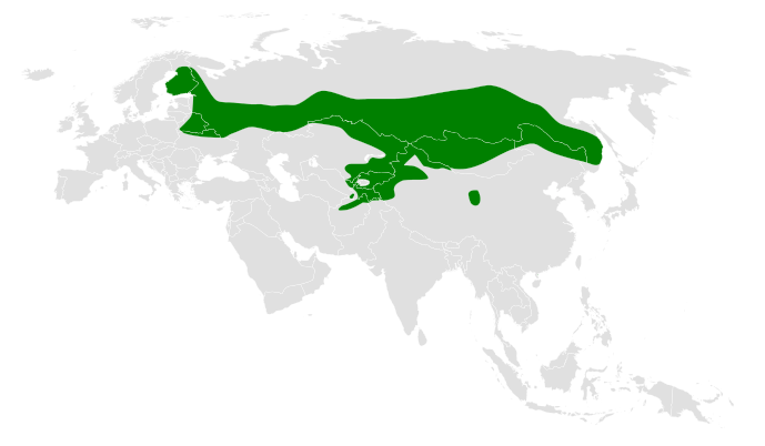 Cyanistes cyanus distribution map, based on